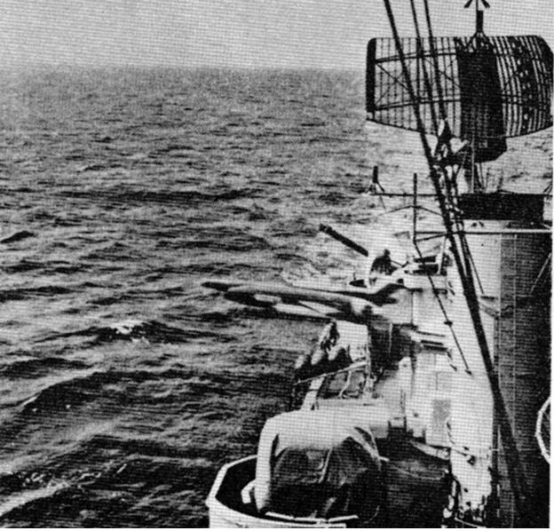 Robot 08 firing from Swedish Halland class destroyer